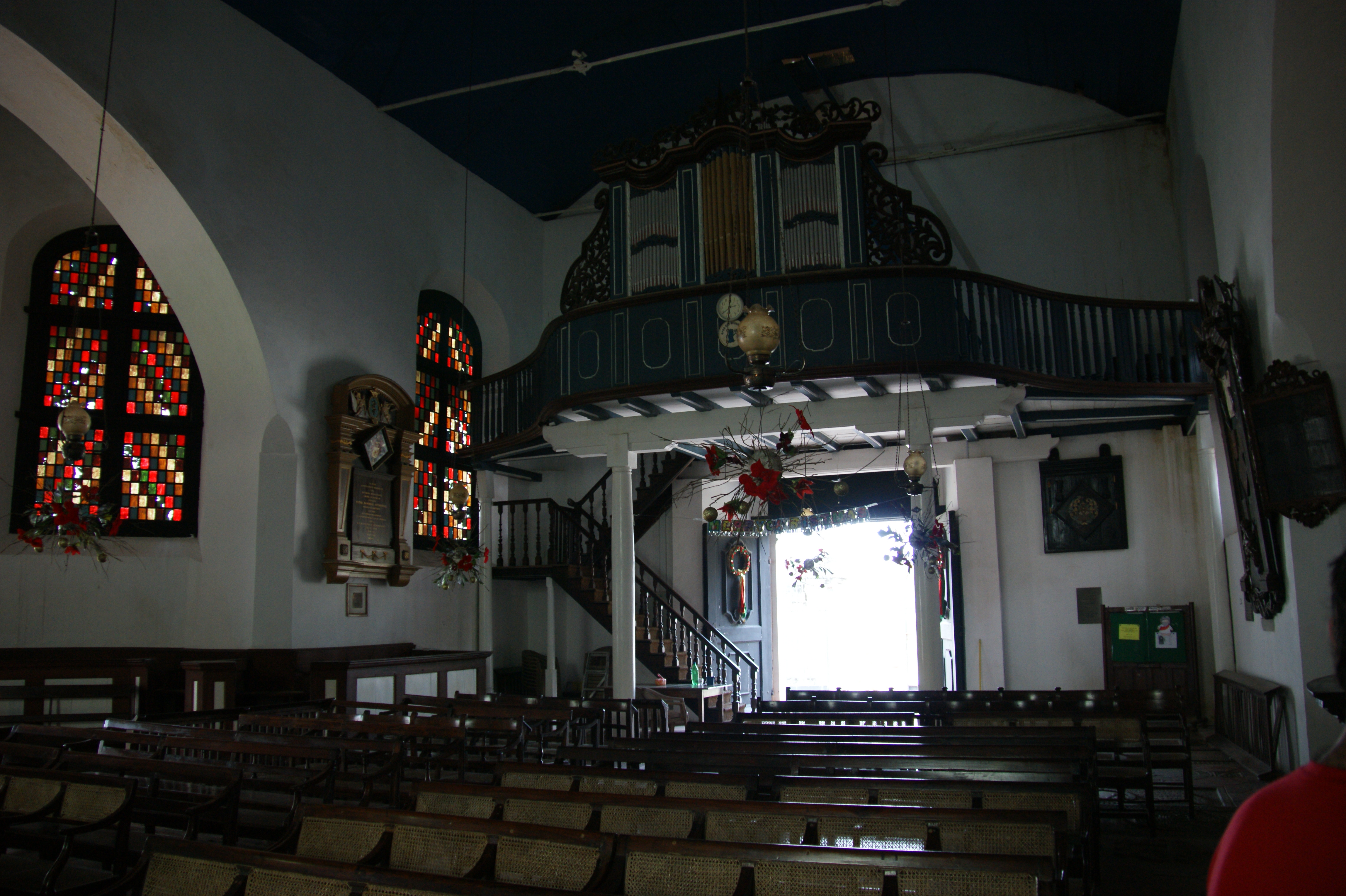 The Groote Kerk or Dutch Reformed Church was built by the Dutch in 1755 and is one of the oldest Protestant churches still in use in Sri Lanka.